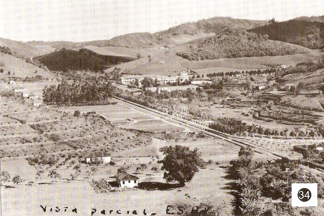 Landscape ESAV 1933